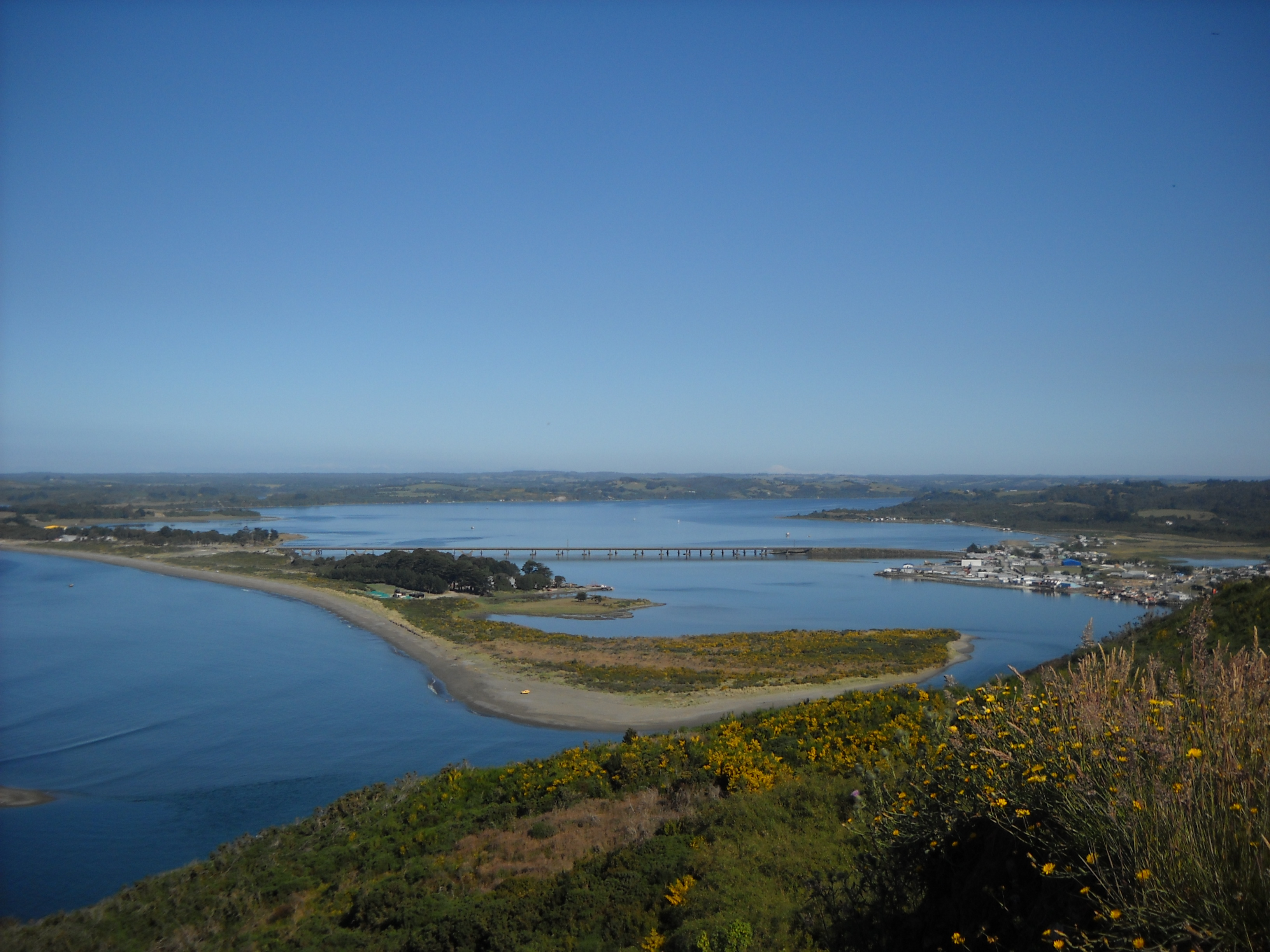 Vista hacia el costado norte de region mas alta del cerro